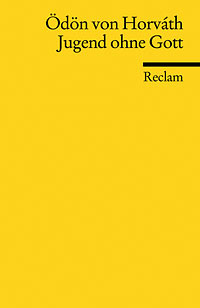 Book cover of Ödön von Horváth "Jugend ohne Gott" 1937